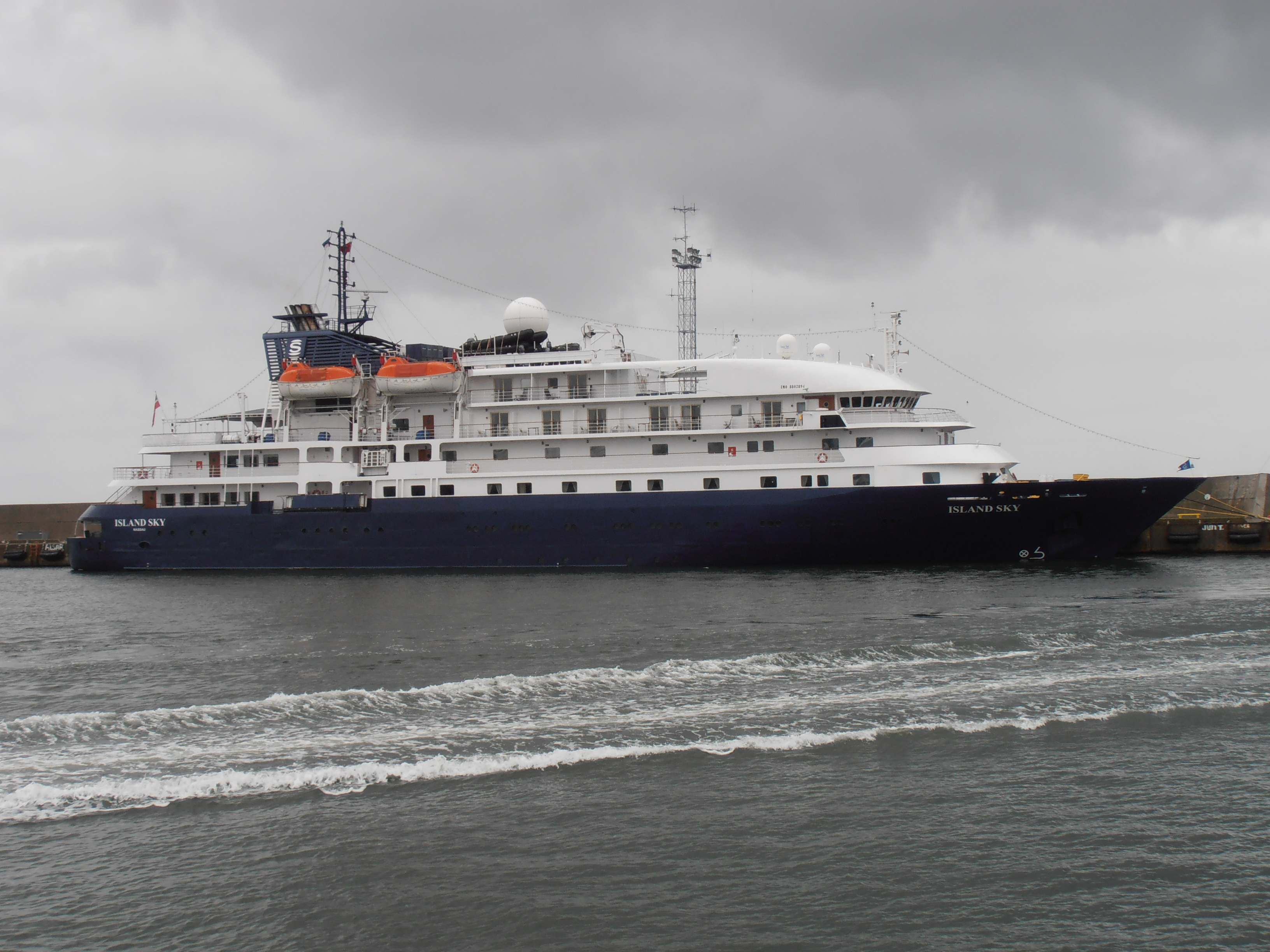 Island Sky IMO 8802894 Tallinn 15 July 2012